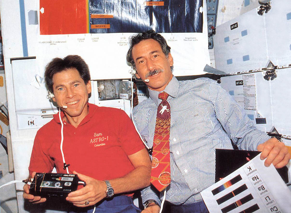 STS-35 astronauts Jeff Hoffman and Sam Durrance teach a classroom lesson from orbit.